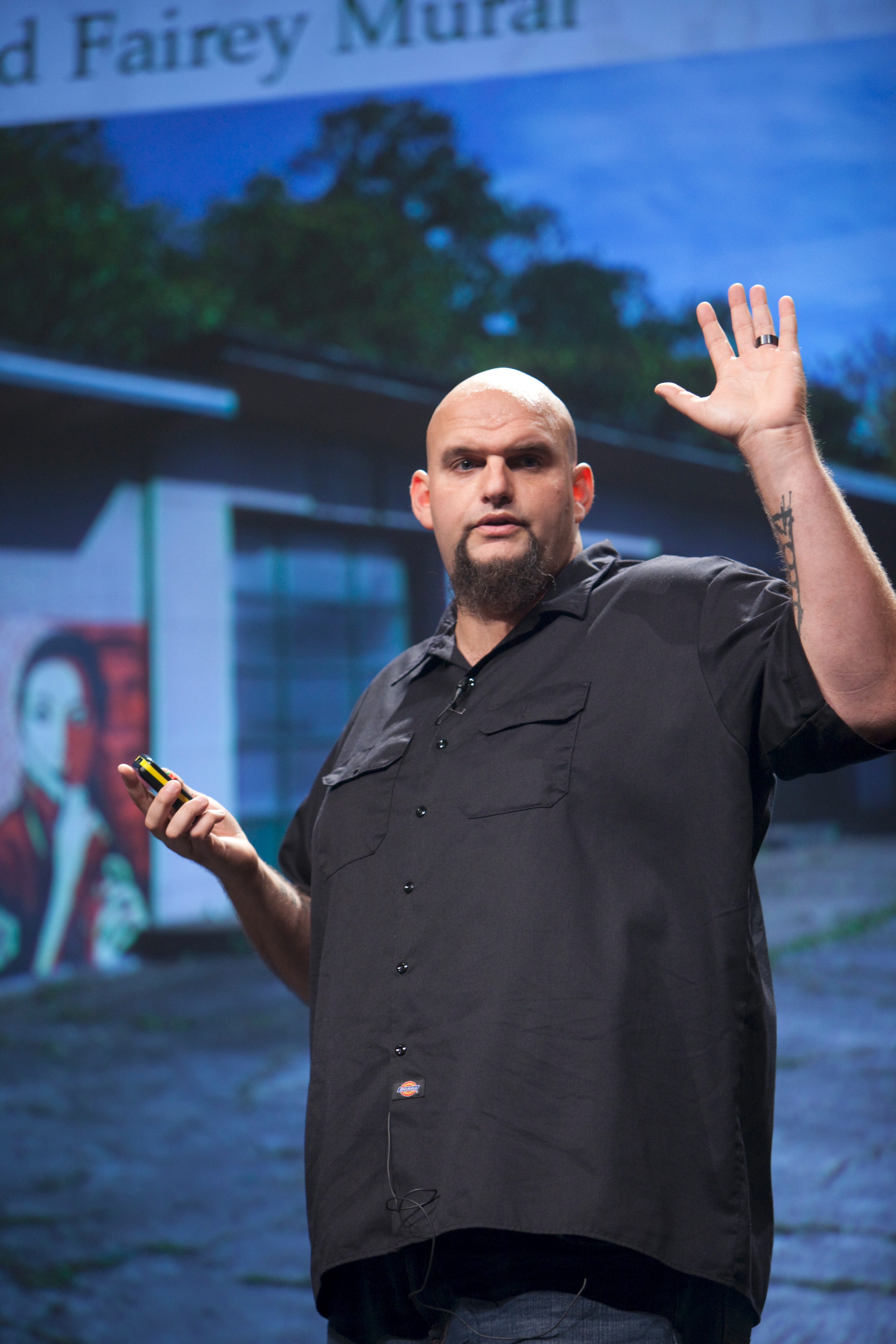 photo by Kris Krüg